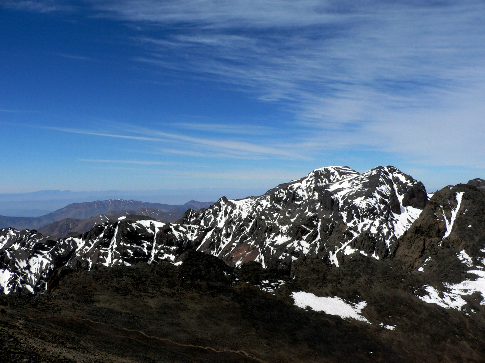 View of the saddle under Jebel Toubkal (3,940 m or 12,930 ft elevation), from the final ridge